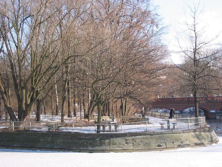 Frozen Landwehrkanal in Berlin-Kreuzberg. Lohmühleninsel, Treptower Brücke.